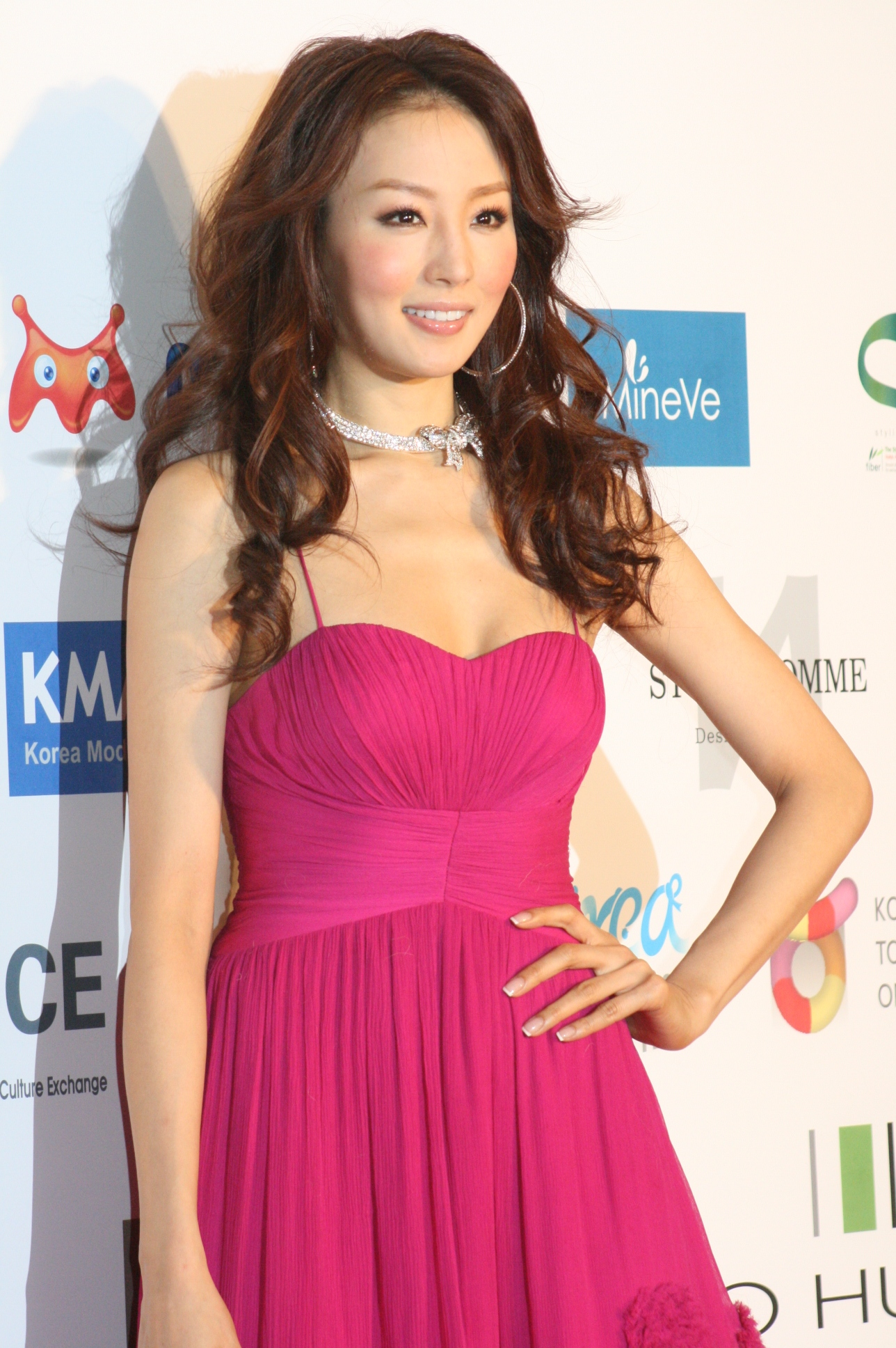 Eunis Chan at the 2009 Asia Model Festival Awards.